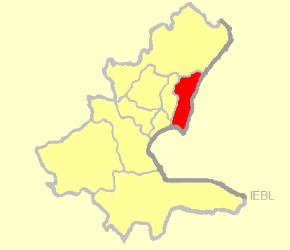 Location of Stari Grad municipality in Sarajevo Canton